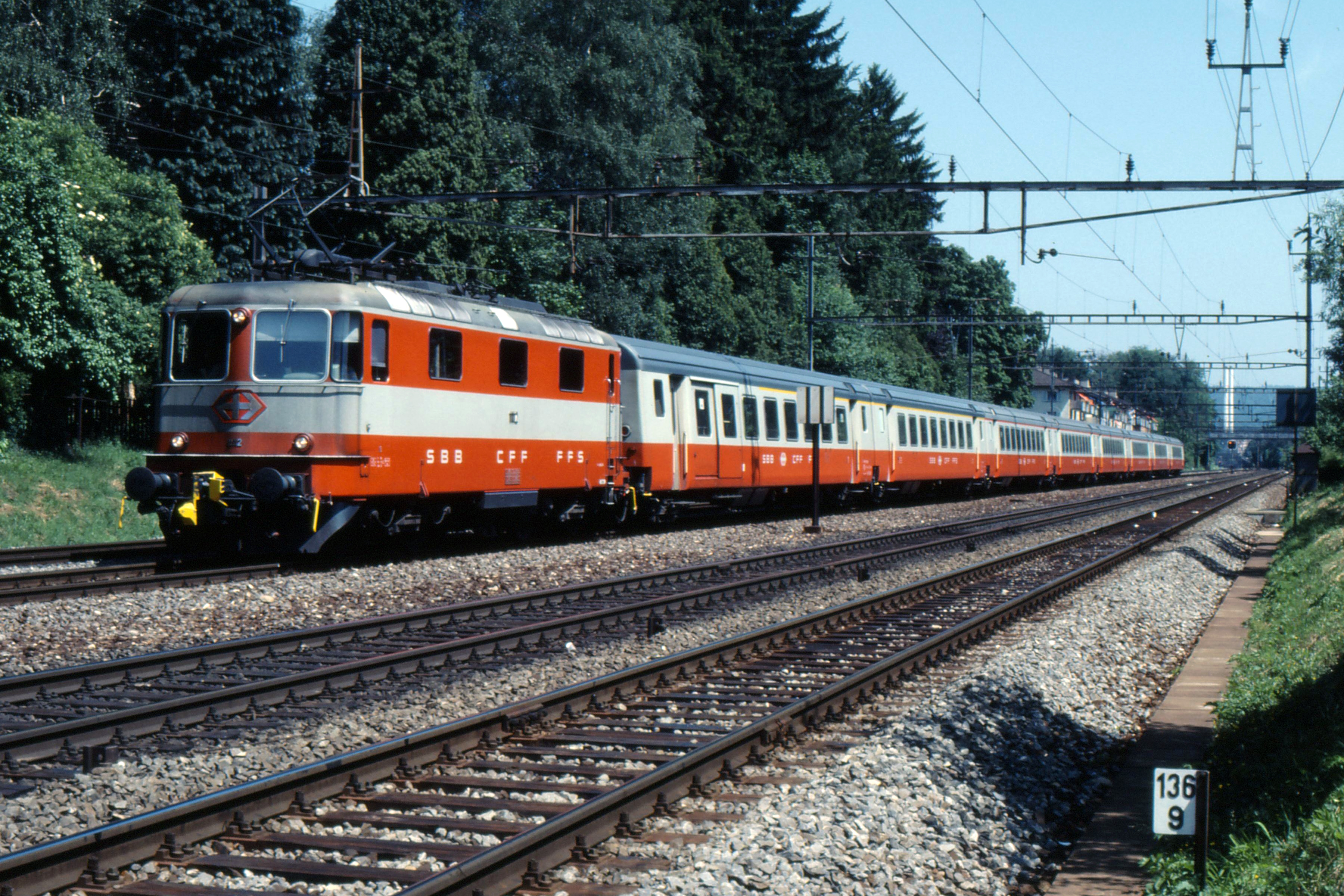 Swissexpress towed by Re 4/4 II